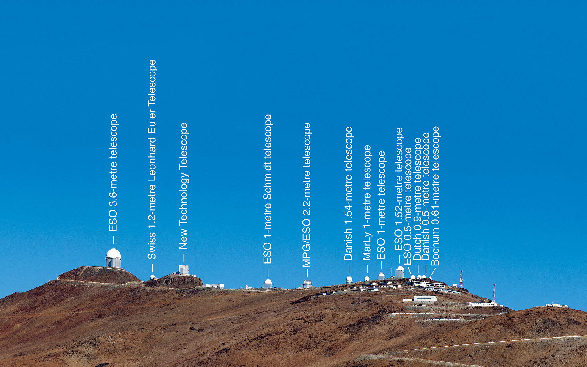 This image places La Silla beneath a clear blue sky along the horizon of the Atacama Desert. Annotations identify the individual telescopes, of which three three were built and are operated by the ESO. Several telescopes are located at the site and are partly maintained by ESO, making it one of the largest observatories in the Southern Hemisphere.